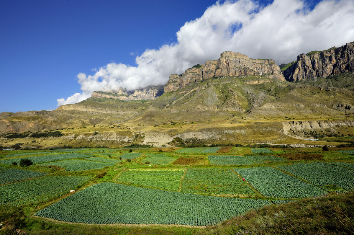 Cabbage fields in the village of Bylym.